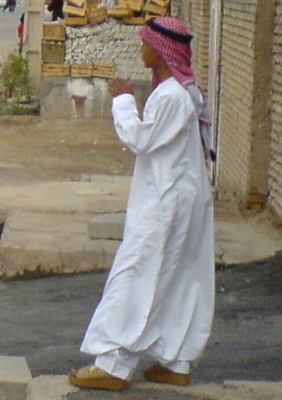 Arab dressed for Eid in Ahwaz